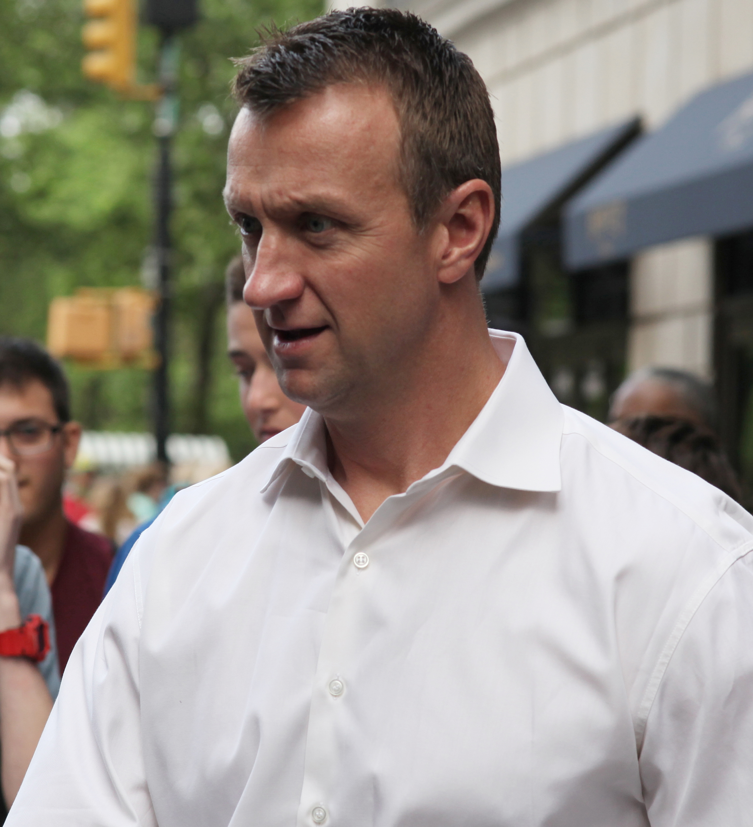 Rob Blake in June 2014, in New York City.